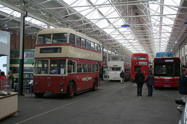 St Helen's trolleybus The last remaining St Helen's trolleybus is on temporary display from its normal home at the Sandtoft Transport Centre near Doncaster in the North West Museum of Road Transport. This is the former St Helen's Corporation Hall Street tram depot. Some surviving tram rail can just be seen - the last tram ran in 1934.